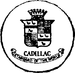 From a 1921 advertisement